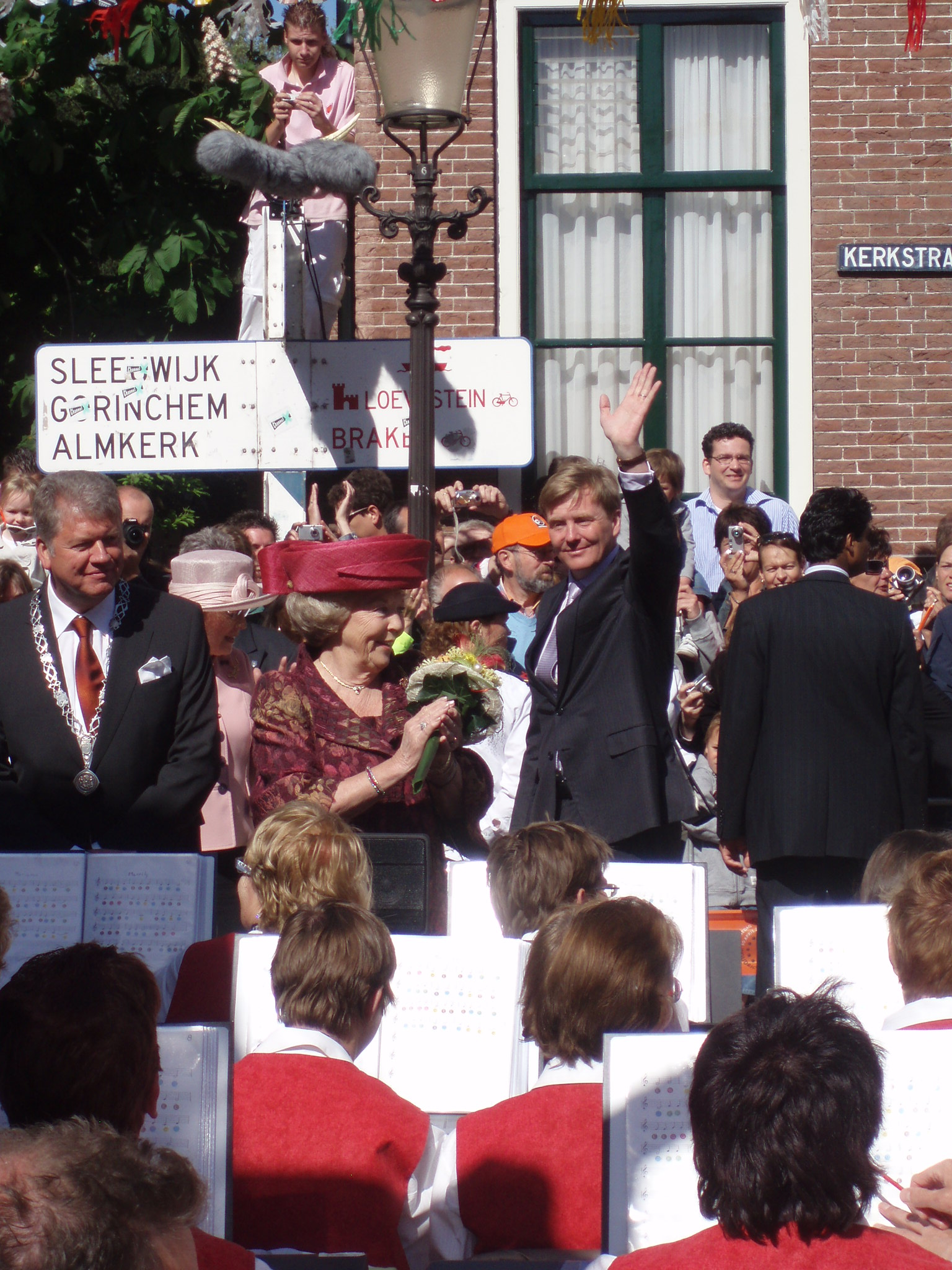 Queen Beatrix of the Netherlands and prince Willem-Alexander in Woudrichem on Koninginnedag (2007), accompanied by the mayor of Woudrichem.